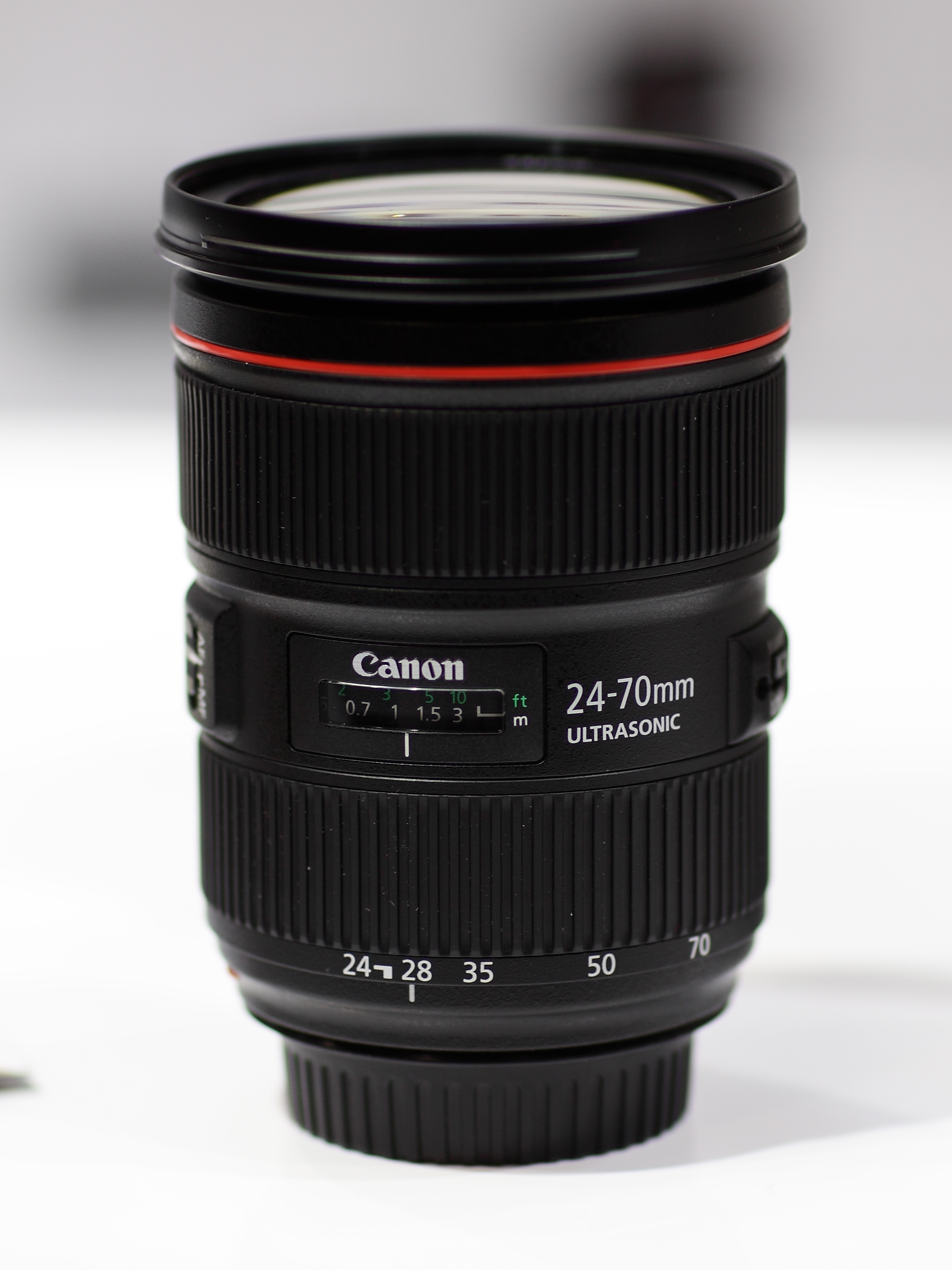 Canon EF 24-70mm f/2.8 L USM II zoom lens, released in 2012.